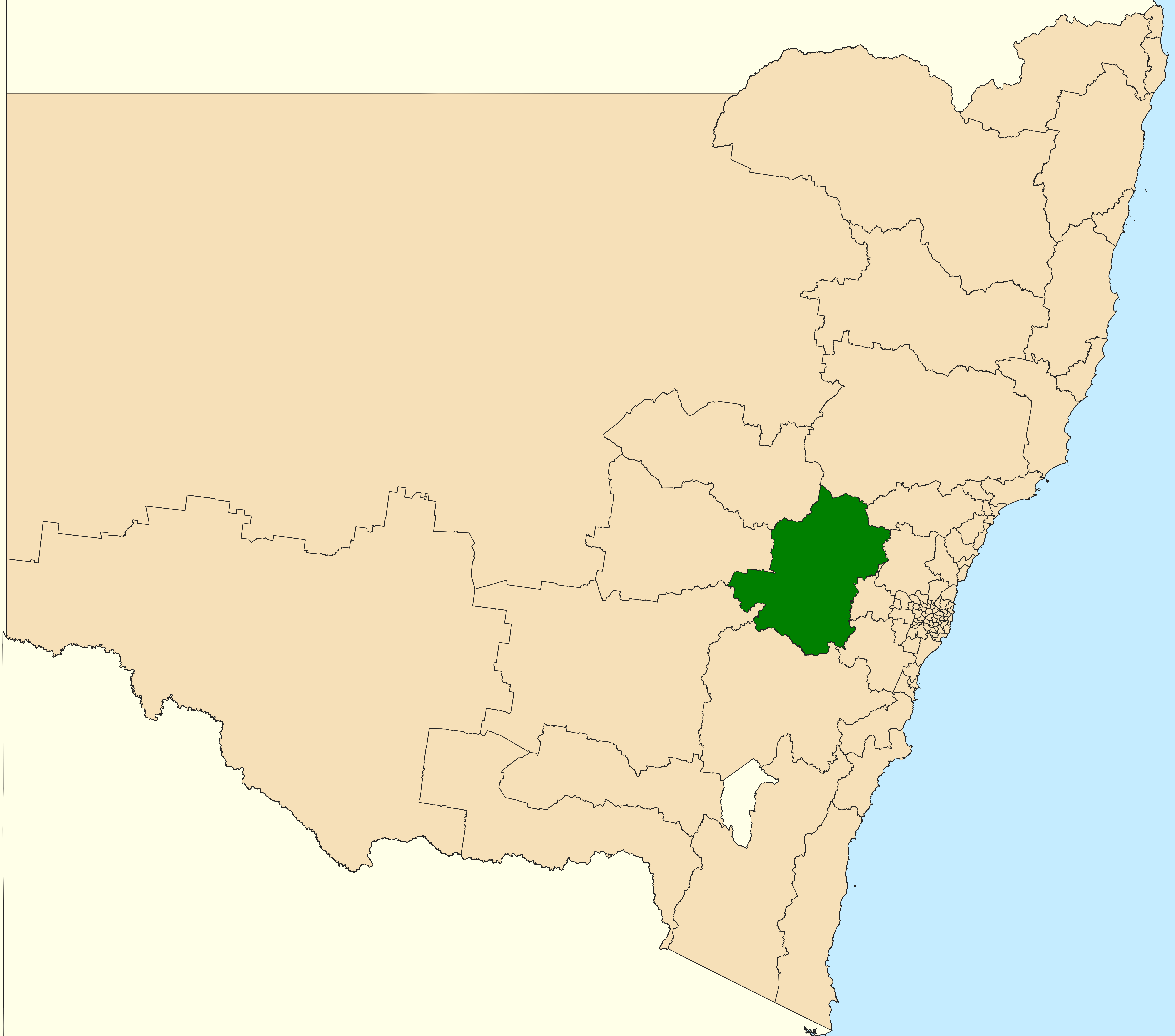 Location of the state electoral district of Bathurst (dark green) in New South Wales as of the 2019 New South Wales state election. Incorporates or developed using Administrative Boundaries ©PSMA Australia Limited licensed by the Commonwealth of Australia under Creative Commons Attribution 4.0 International licence (CC BY 4.0).